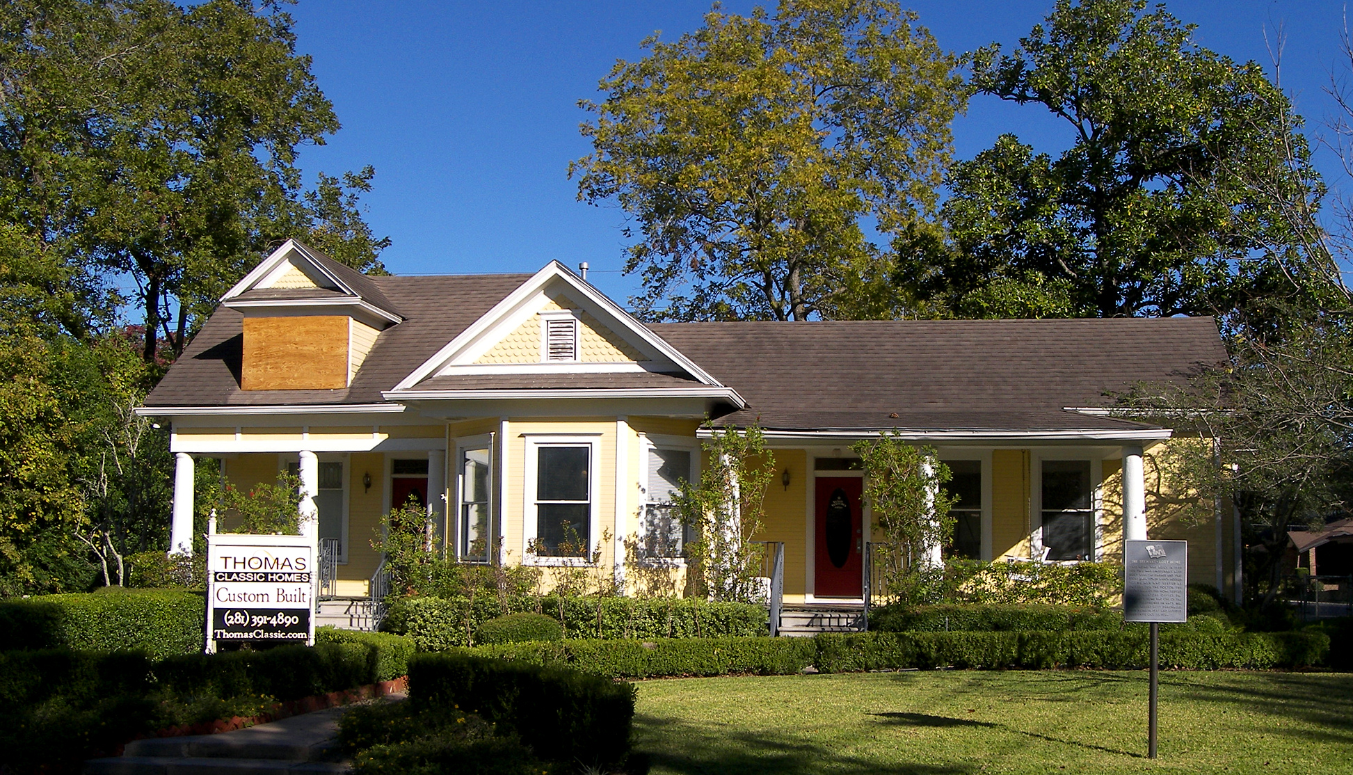 The Dr. James M. and Dove Stewart House located in Katy, Texas, United States. The upper window is still boarded up from Hurricane Ike. The house was listed on the National Register of Historic Places on February 16, 1996.